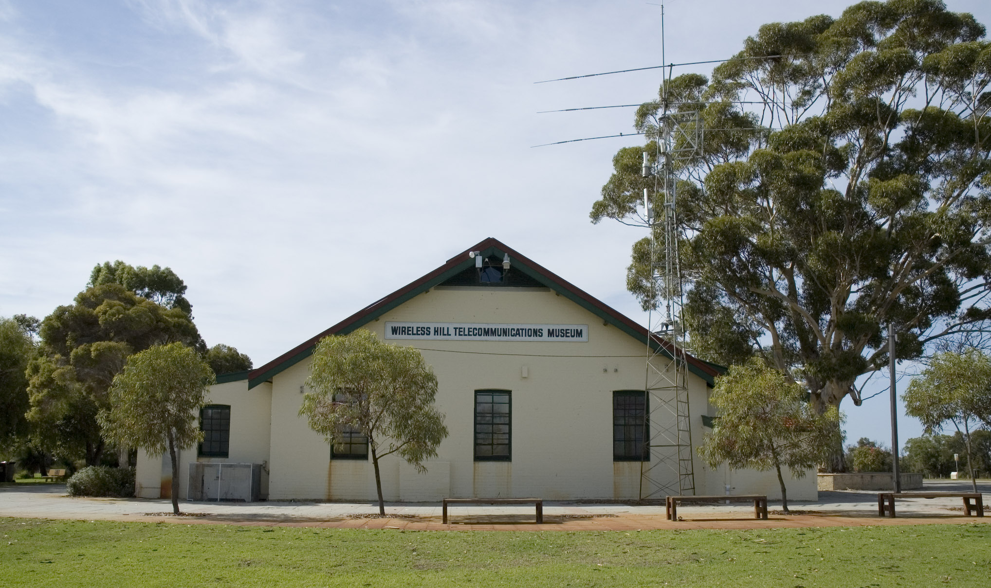 Wireless Hill Telecommunications Museum, Wireless Hill Park, Ardross, Western Australia